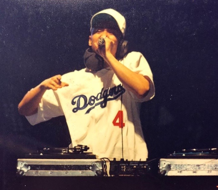 Joon Lee of Solid during the concert in 1996 in Seoul, Korea.